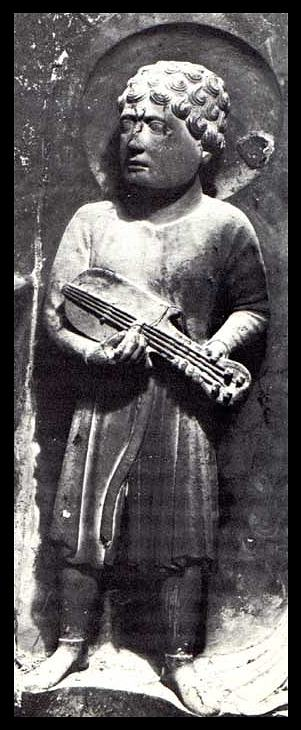 photograph of medieval artwork: citole References Roger Edward Blumberg (2002). The Cipher for Viola da Gamba and Lute, Page 2. . Paul Butler. The Citole Project. Historical Instruments, Paul Butler Díverse Arts.